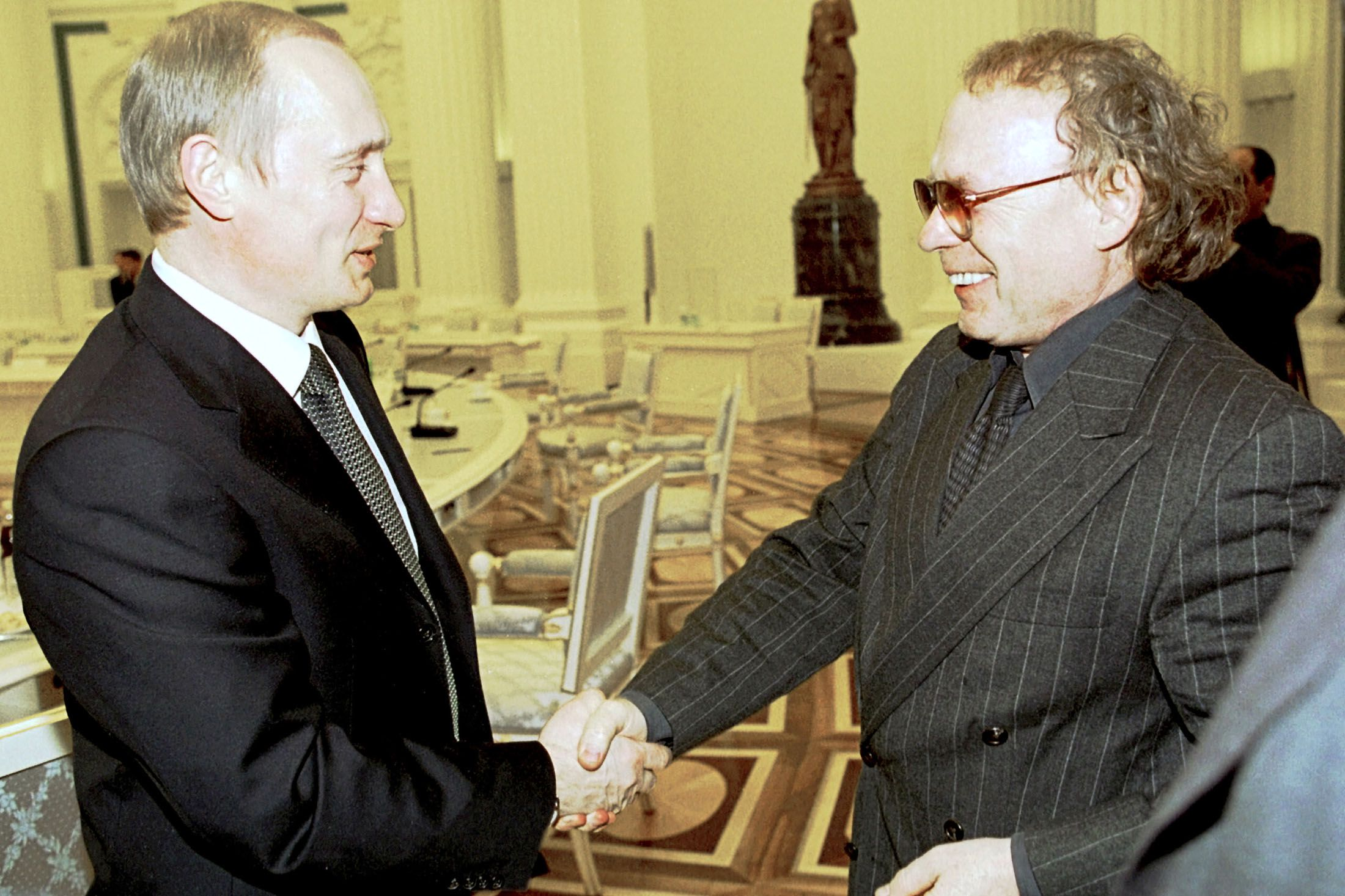 THE KREMLIN, MOSCOW. Presidential Culture and Art Council meeting. President Vladimir Putin with Edvard Radzinsky, playwright and historical writer.